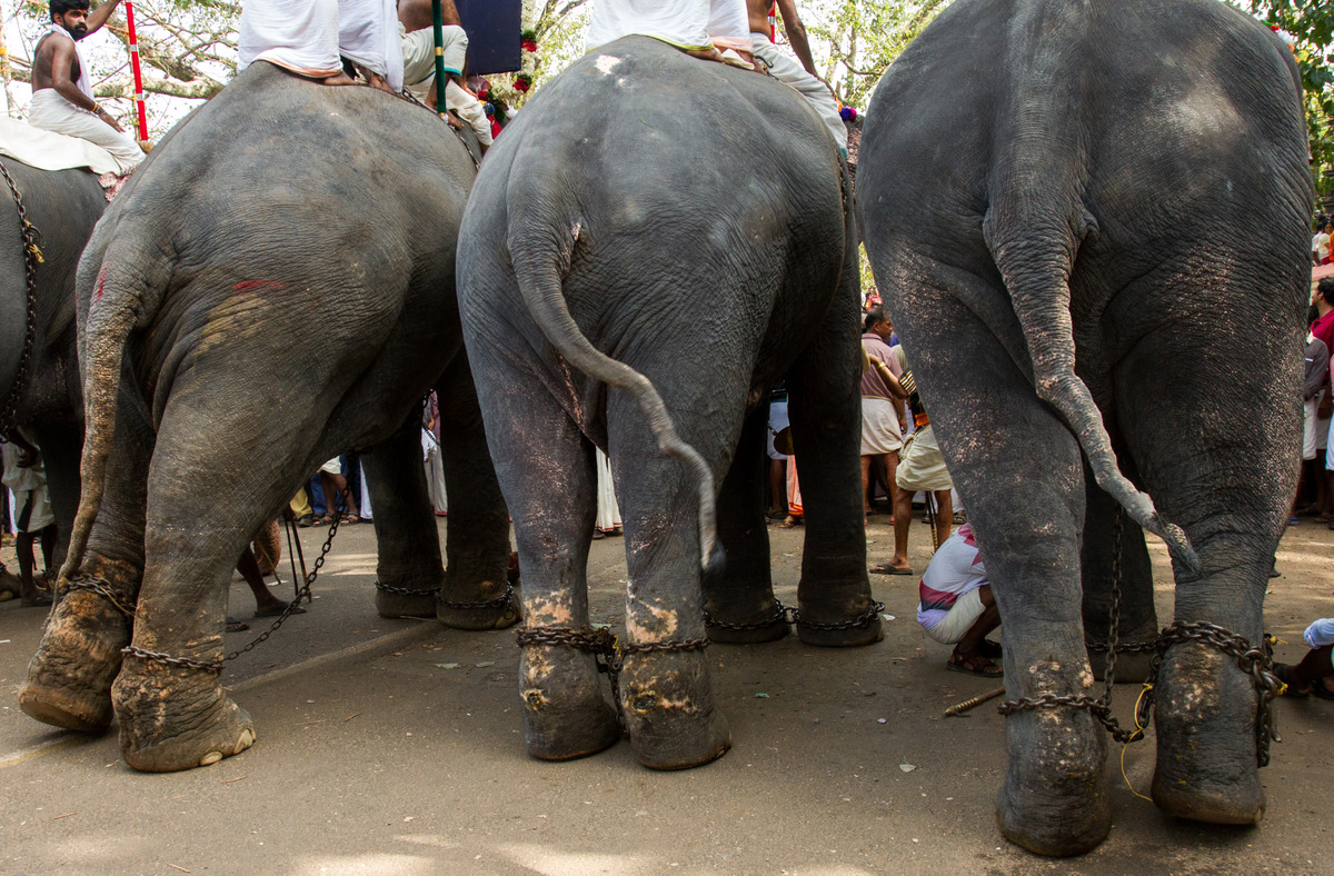 Captive Elephants of Kerala, Cruelty against elephants, Aanapremam, Thrissur Pooram, Festivals of Kerala, Elephants in captivity, Temples of Kerala